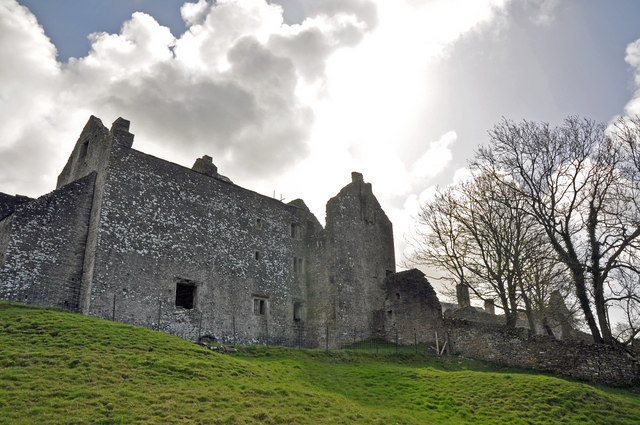 Beaupre Castle near Cowbridge Old Beaupre was a medieval and then Tudor manor house, built around two courtyards. The medieval part, dating from about 1300. Rebuilding was undertaken by Sir Rice Manselin the 16th century and continued by William Bassett to be finished by his son Richard. The northernmost buildings around the middle court were added in this time including the most important feature, the outer gatehouse and storeyed porch. Heraldic panels and inscriptions also feature and show who was responsible for the building of the house. Entry to the house is through the three-storeyed outer gatehouse and embattled curtain wall, part of the Tudor rebuilding. The building has many interesting features and is, at the time of submission having remedial work carried out by CADW. This is due completion on 31 May 2009.